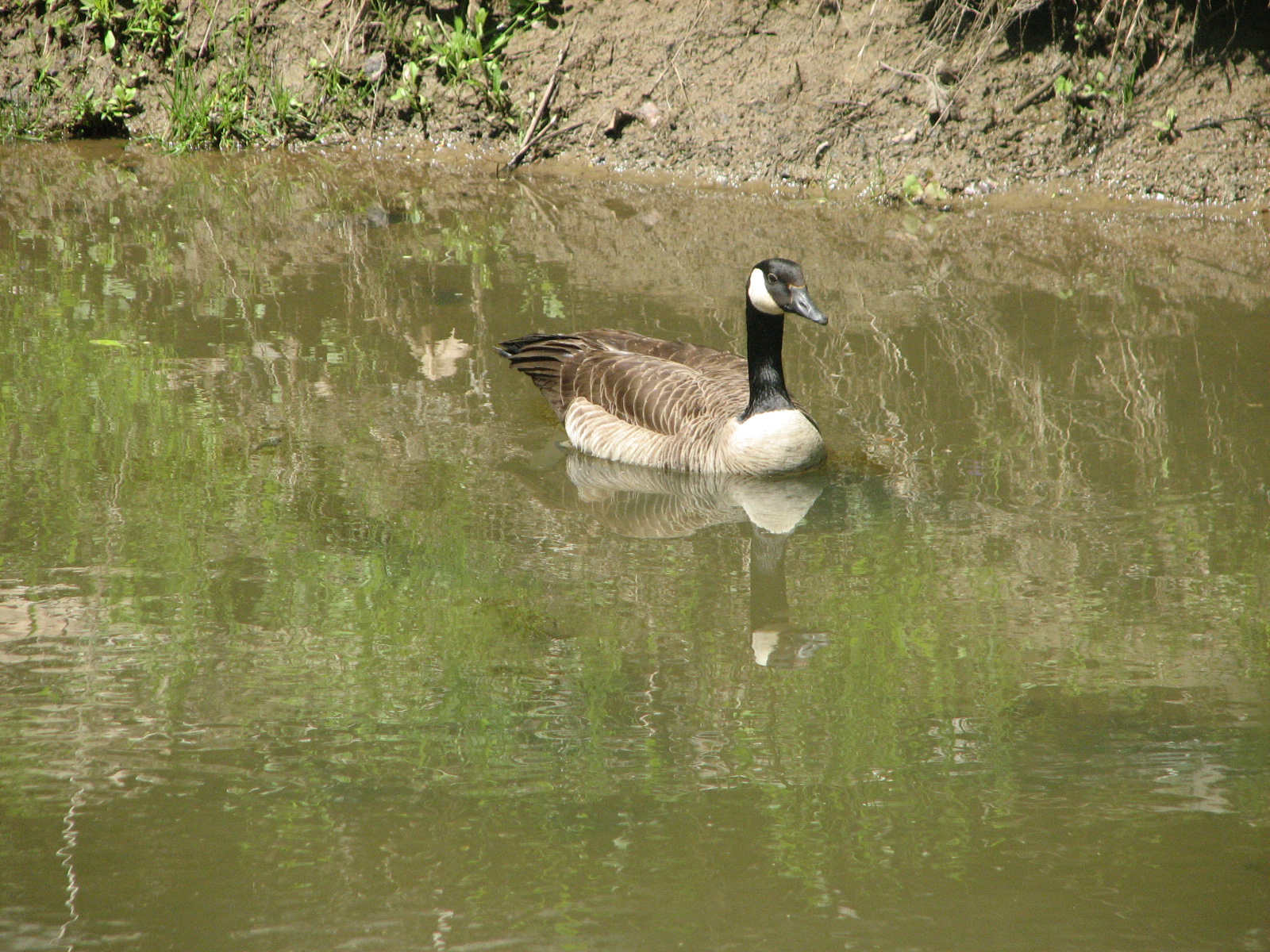 A Canada Goose (Branta canadensis) found in a body of water in the city of Peninsula, Ohio at Cuyahoga Valley National Park.